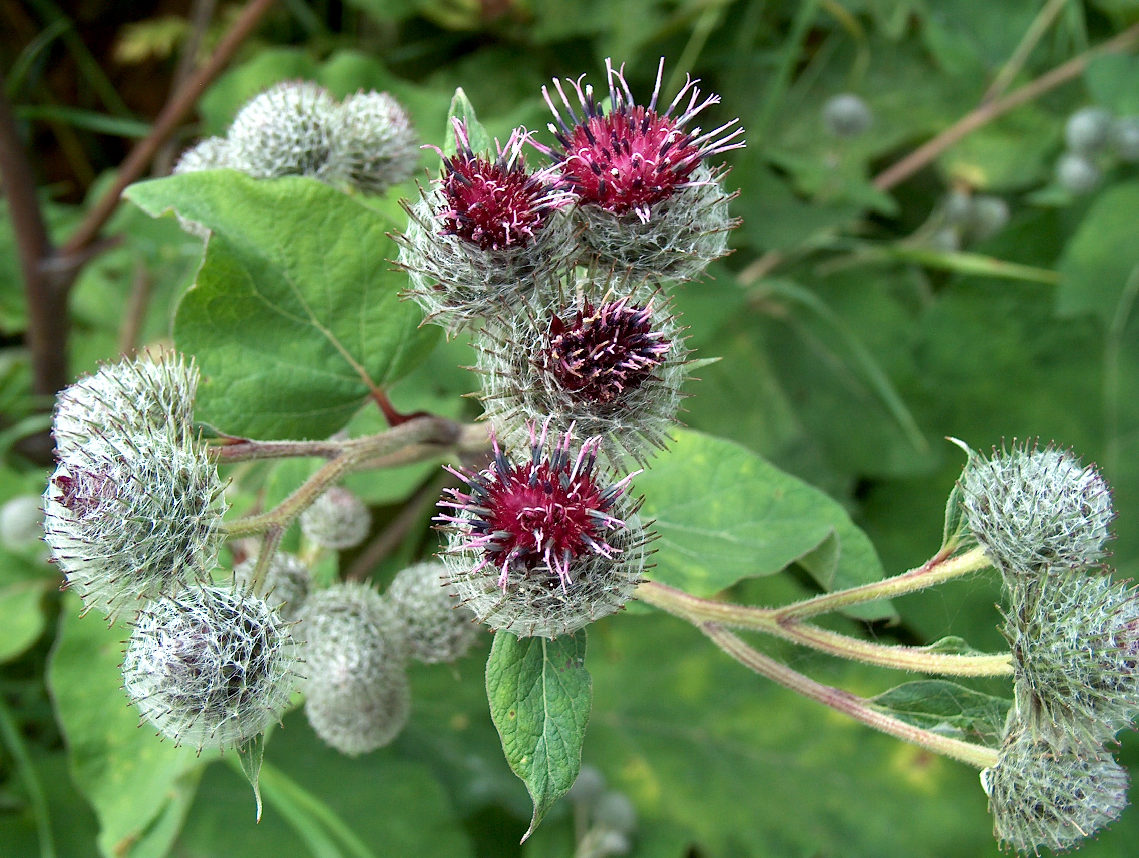 Woolly Burdock (Arctium tomentosum) - Flowers in July - Kerava, Finland